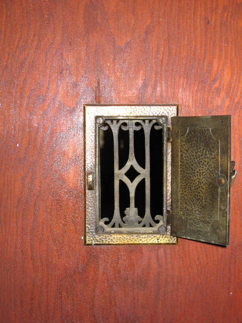 Peephole2: this is the peephole in our apartment when the door is open. Taken on: 2004-12-21 12:52:49